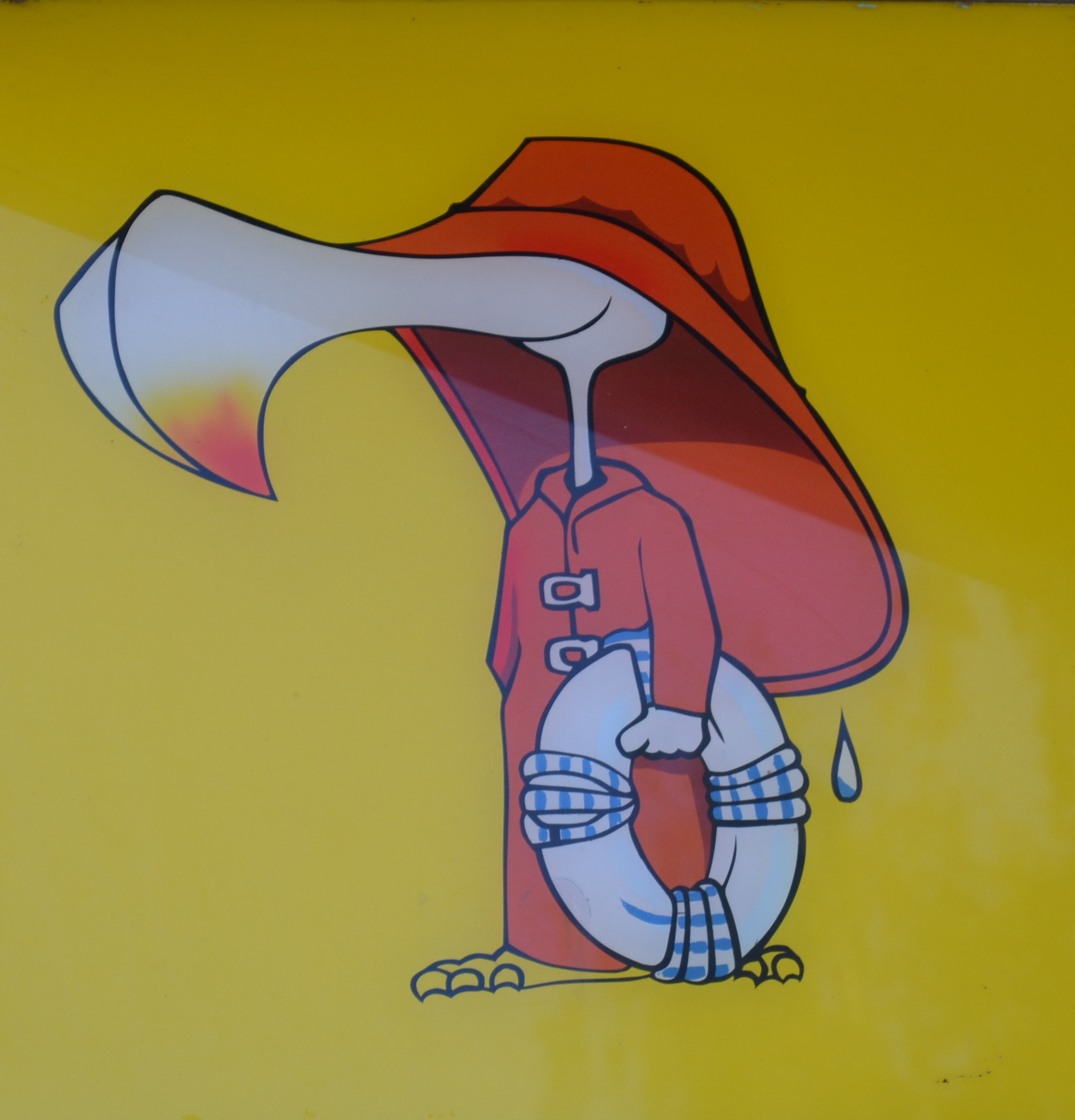 Beacon Bill, the Beacon Drive In's mascot.